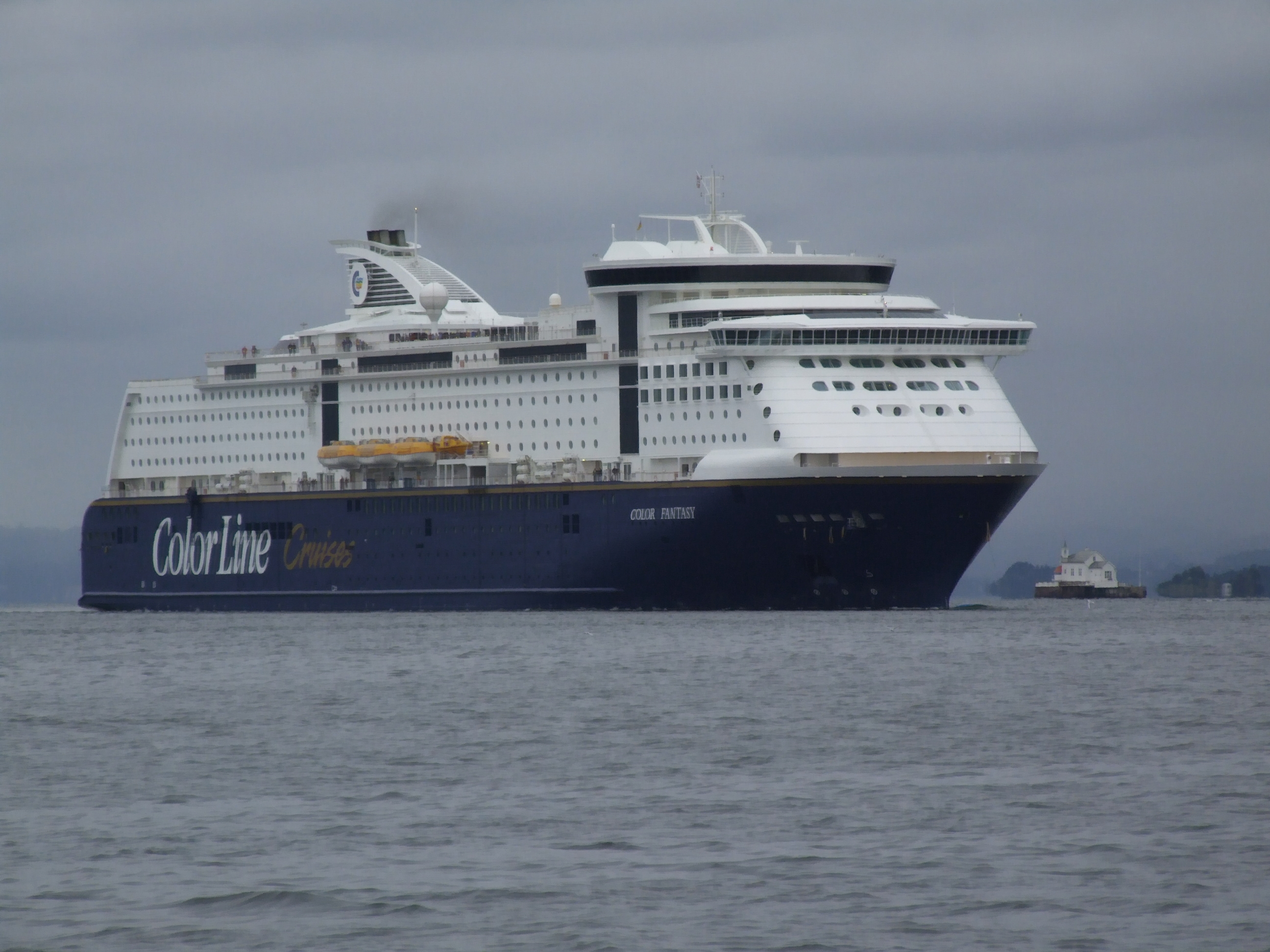 M/S Color Fantasy - the second largest cruiseferry in the world